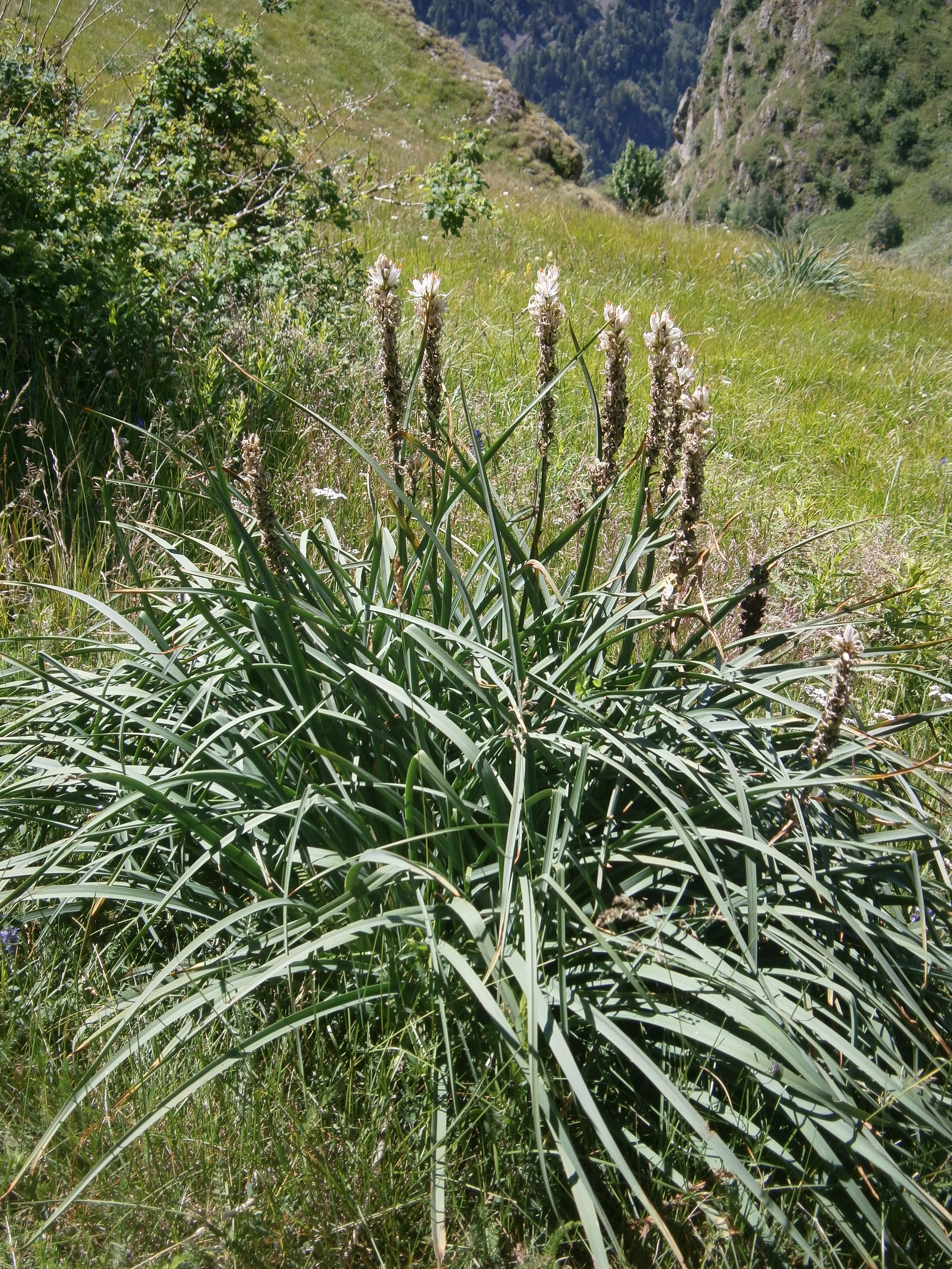 Asphodelus macrocarpus fading